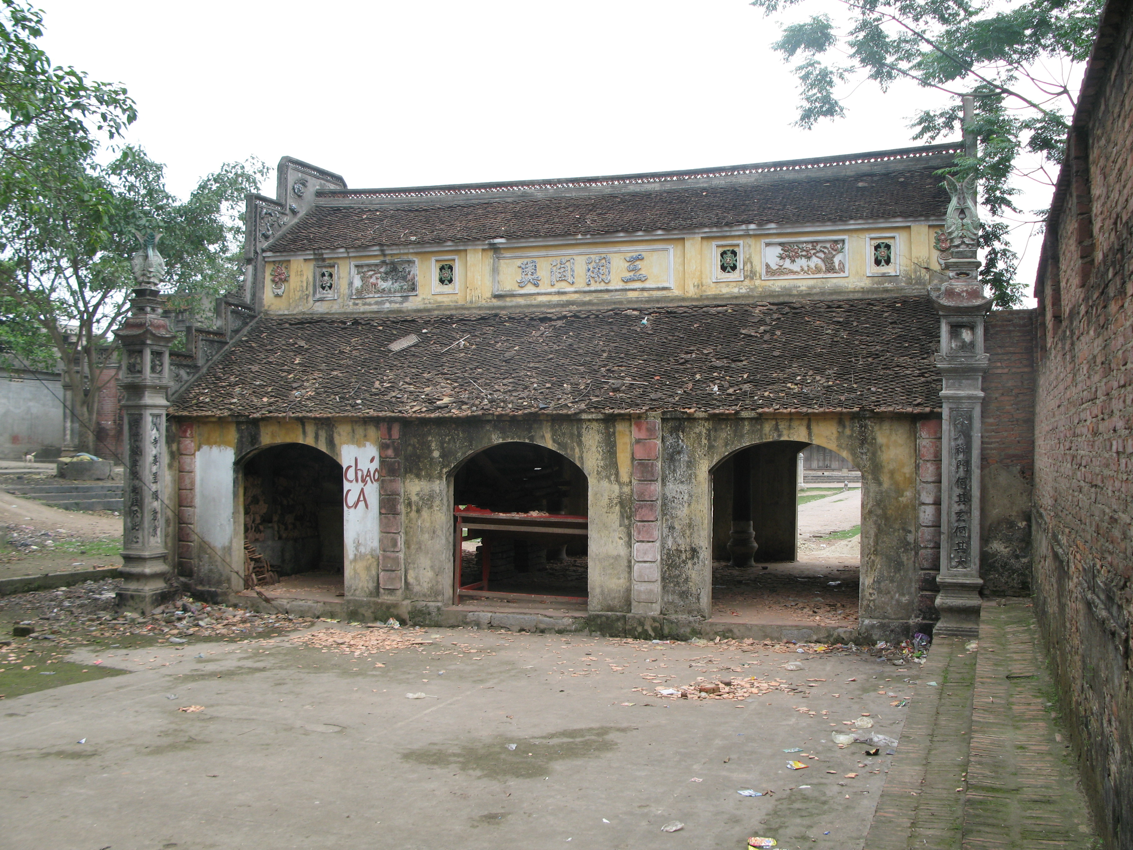 The three-door temple gate of Tho Ha pagoda that is located in Tho Ha village, Van Ha commune, Viet Yen district, Bac Giang province